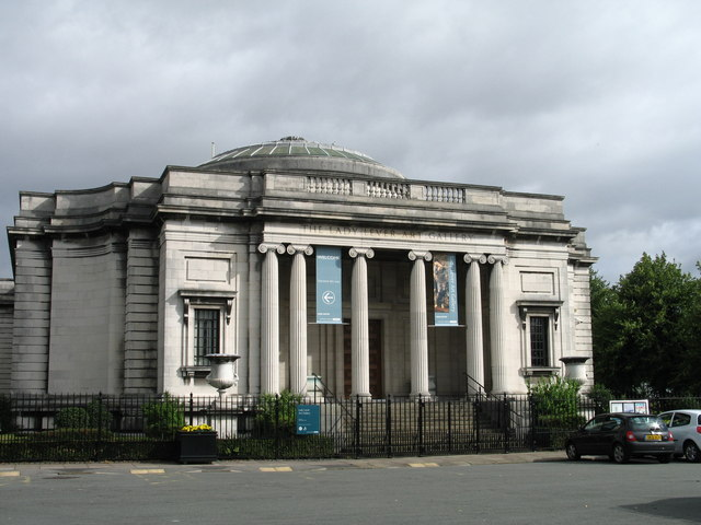 Port Sunlight - Lady Lever Art Gallery